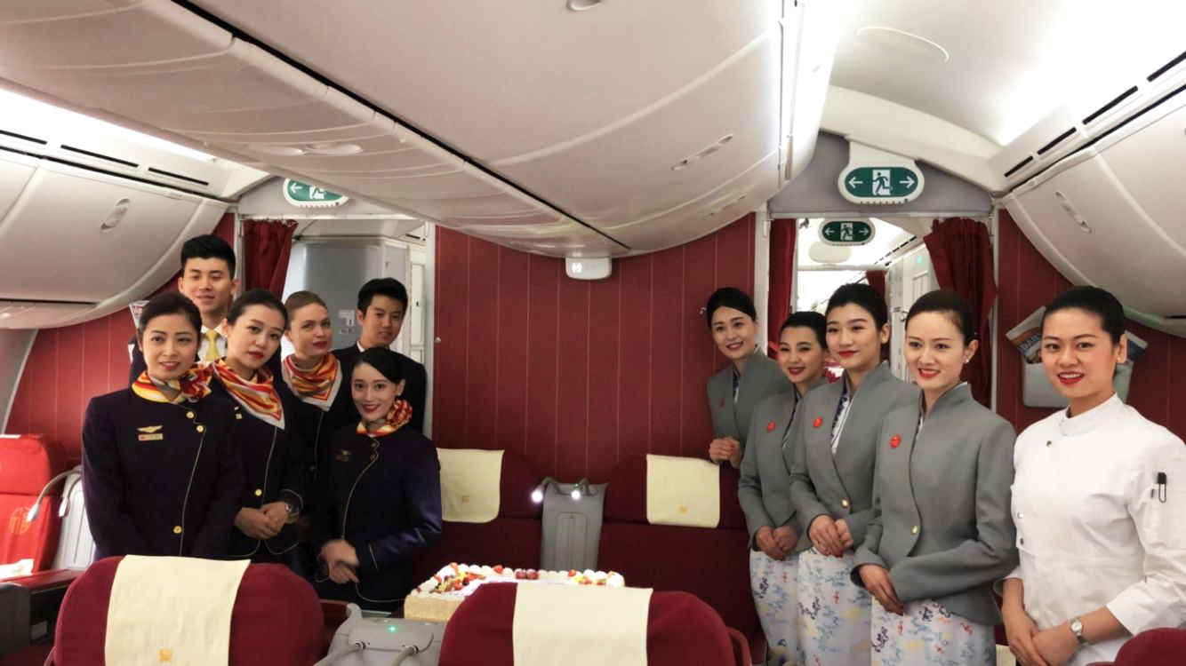 Shanghai inaugural flight